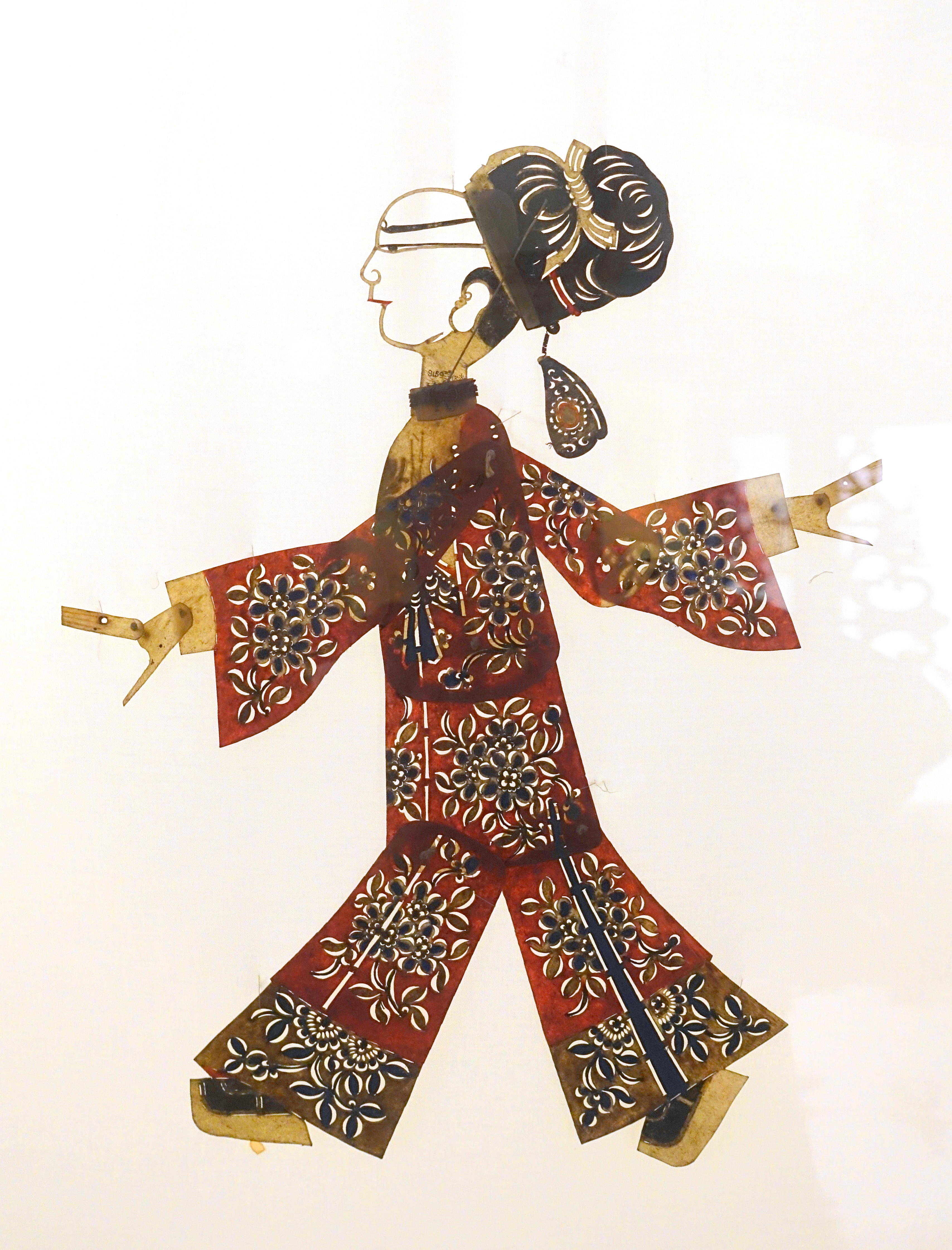 Exhibit in the Sichuan Provincial Museum (四川省博物院), also known as the Sichuan Museum, 251 Huanhua S Road, Chengdu, Sichuan, China. This work is old enough so that it is in the public domain.